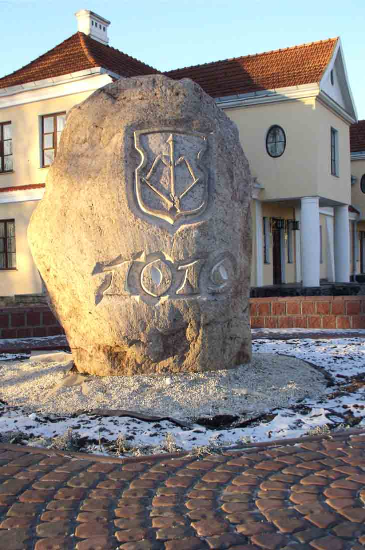 Street in Bereście